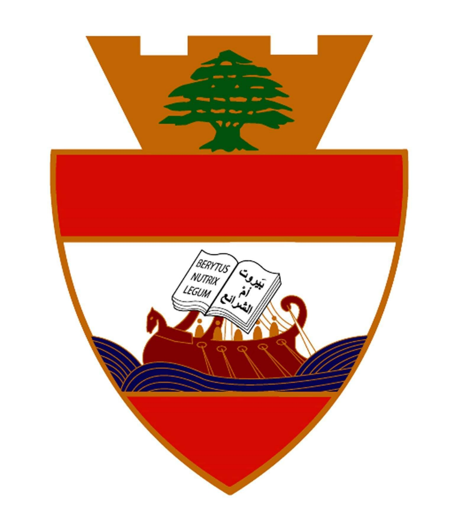 The coat of arms of Beirut